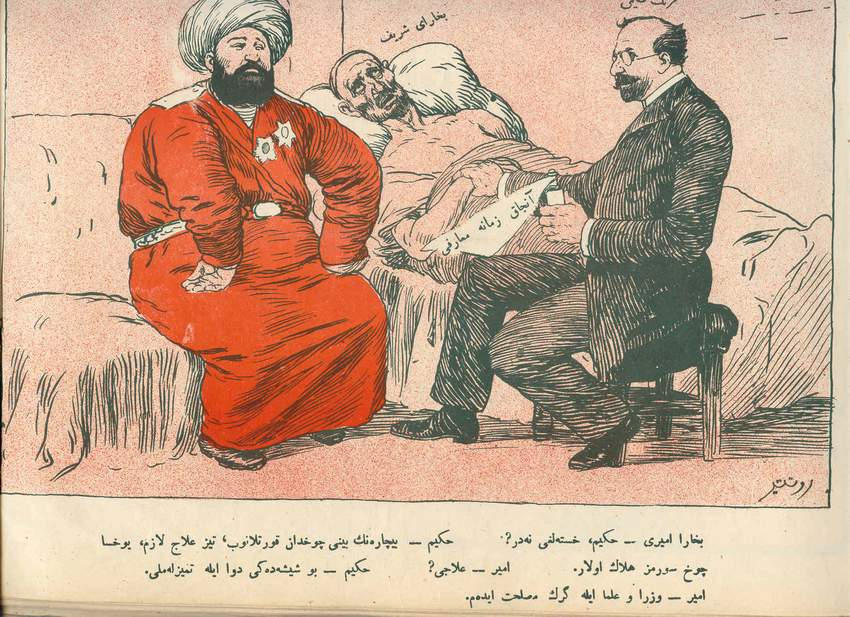 Holy Bukhara. «Molla Nasreddin» magazine. #20.